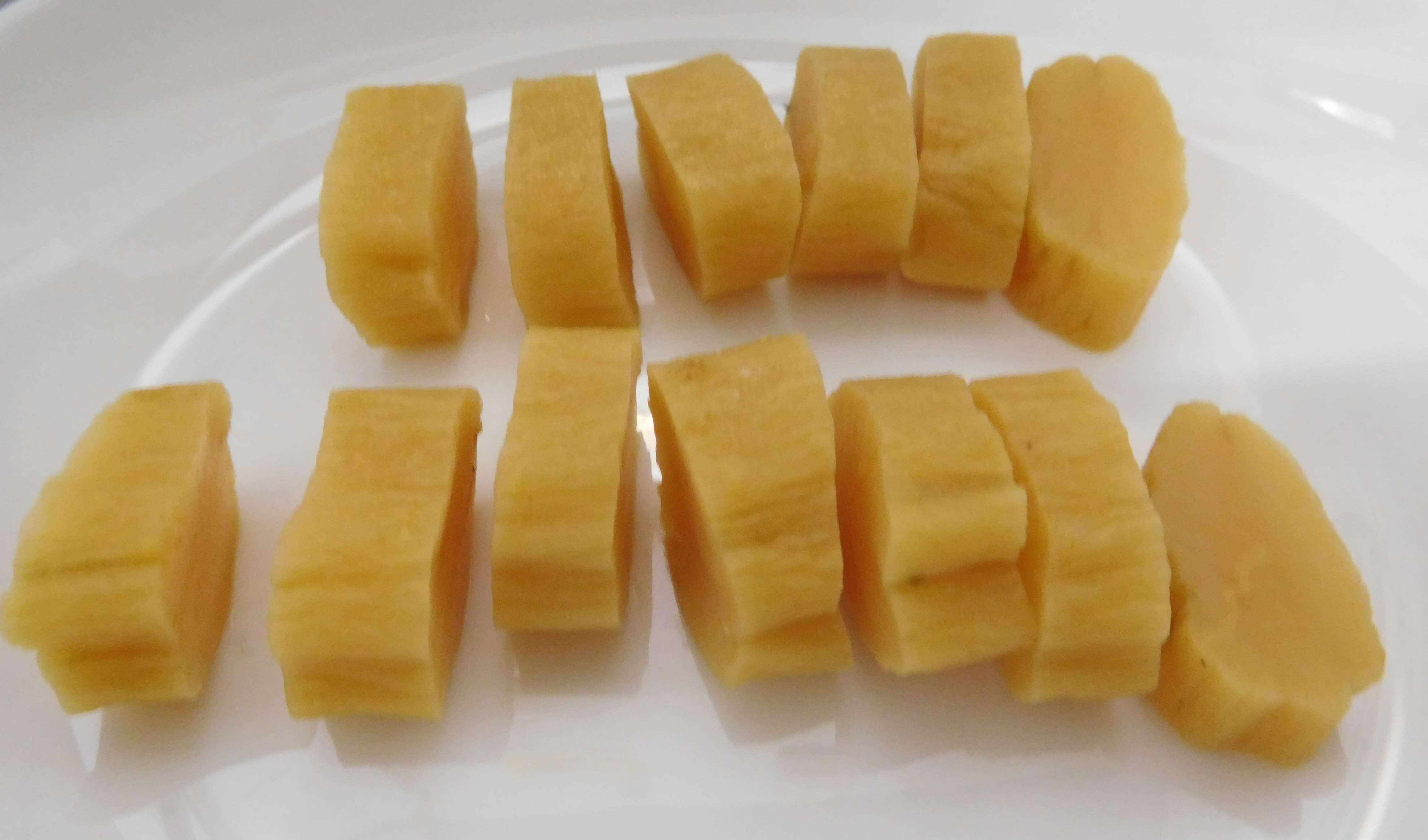 Ise takuan, made in Mie prefecture, Japan.